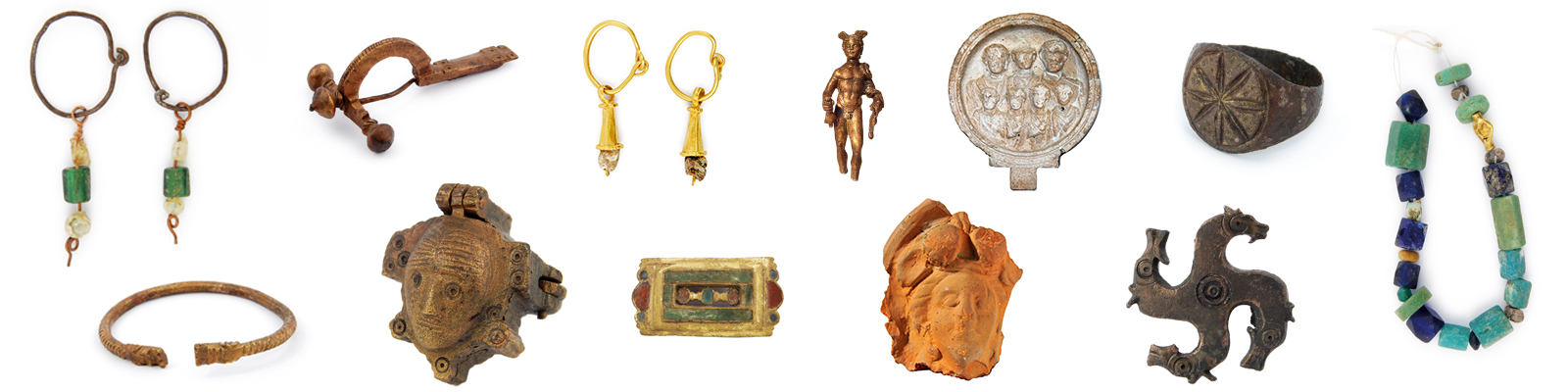 Archaeological objects